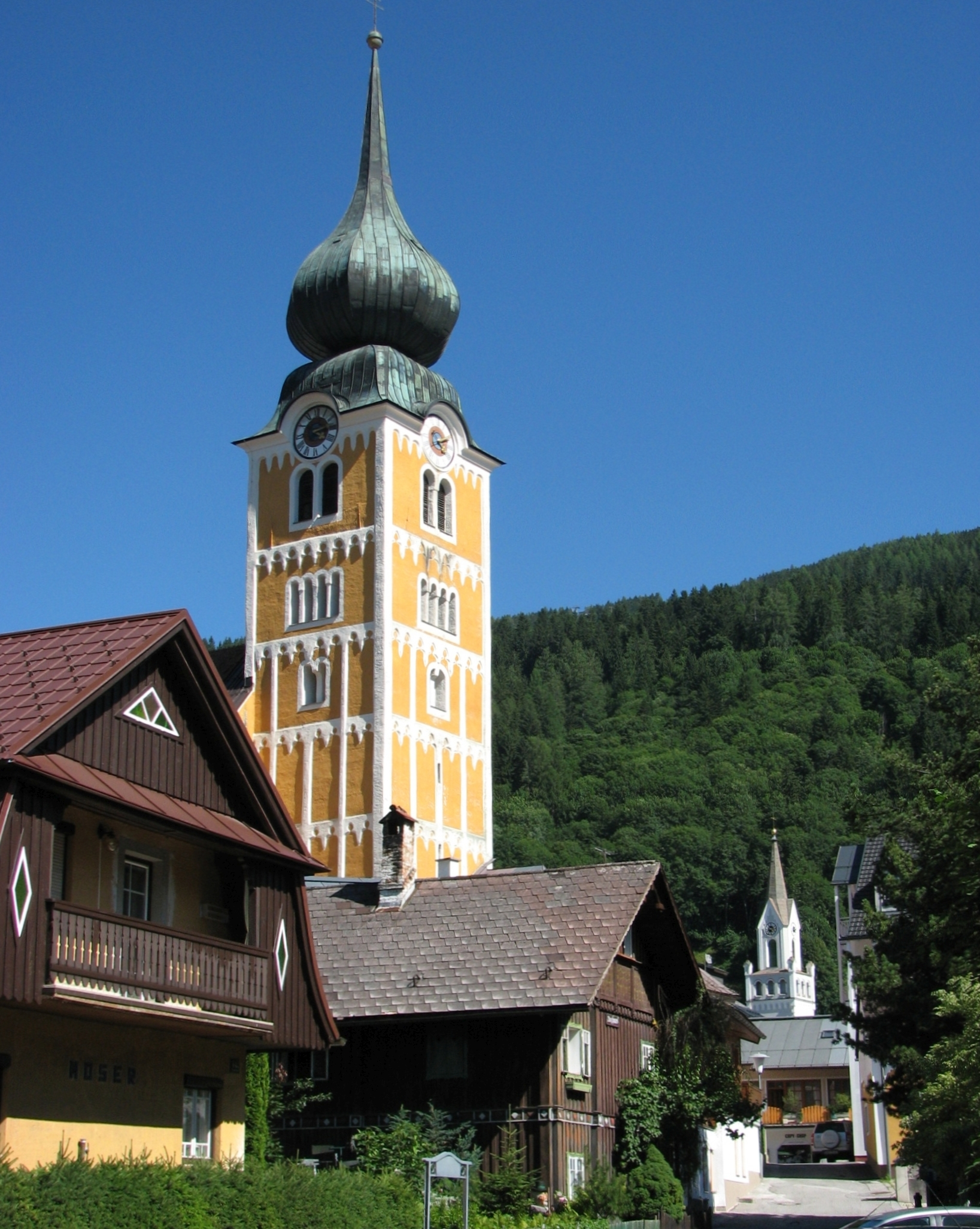 Schladming, Austria. Catholic church in the foreground